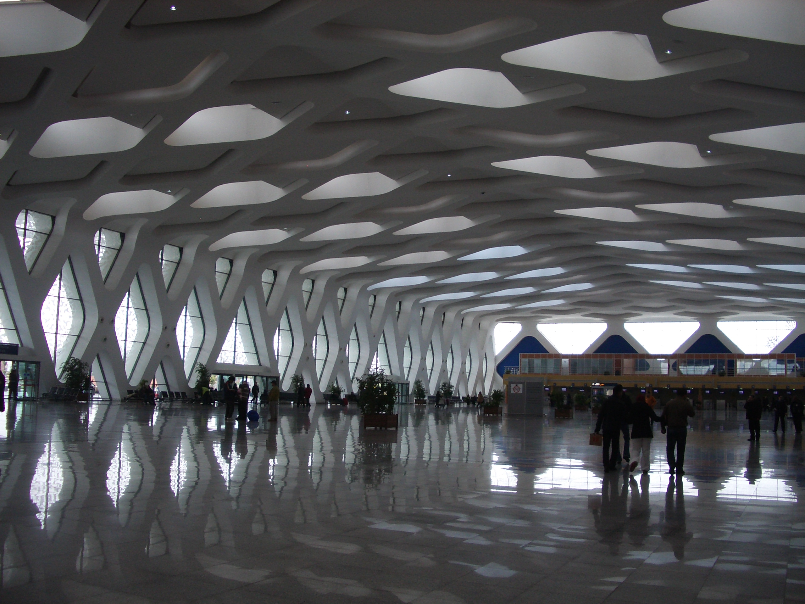 Airport La Menara - Marrakech - inside